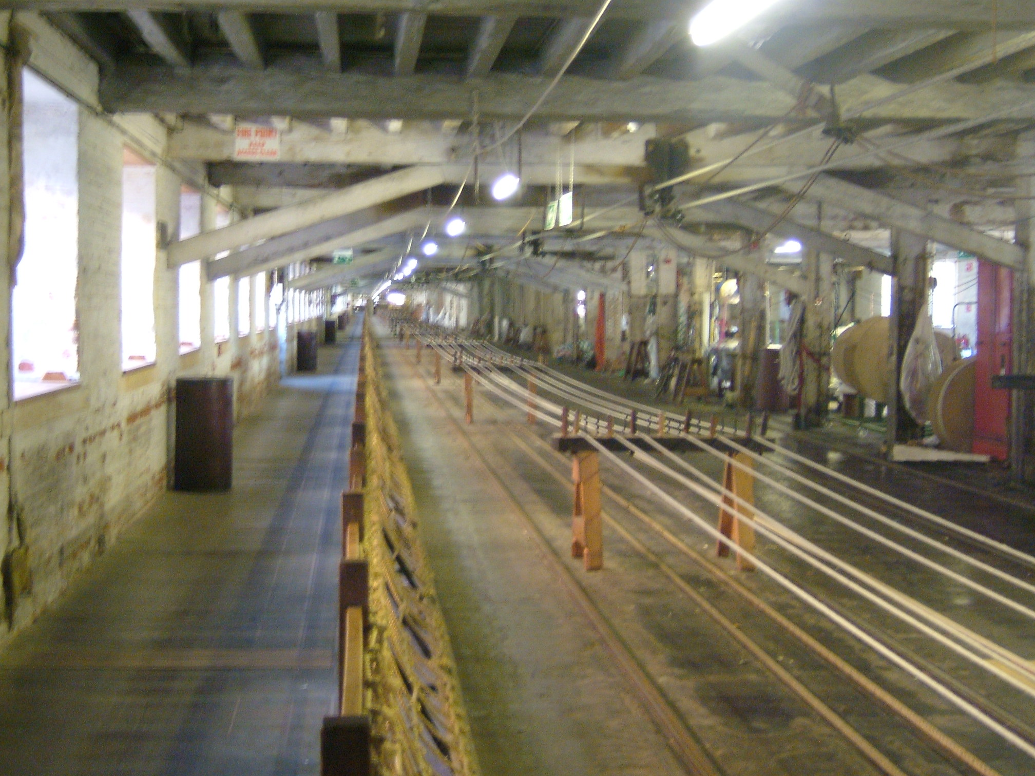 Chatham Dockyard, Kent,England has the finest collection of 18th and 19th century naval dockyard buildings many of which are scheduled as ancient monuments. Chatham Double Ropehouse. This is 1128 ft long and 42 ft wide. The longest brick building in Europe when it was constructed. The ropewalk: laying the rope.Low light hand held shot.